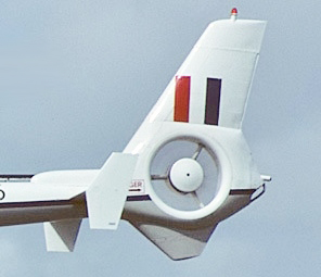 Westland SA-341E Gazelle fenestron